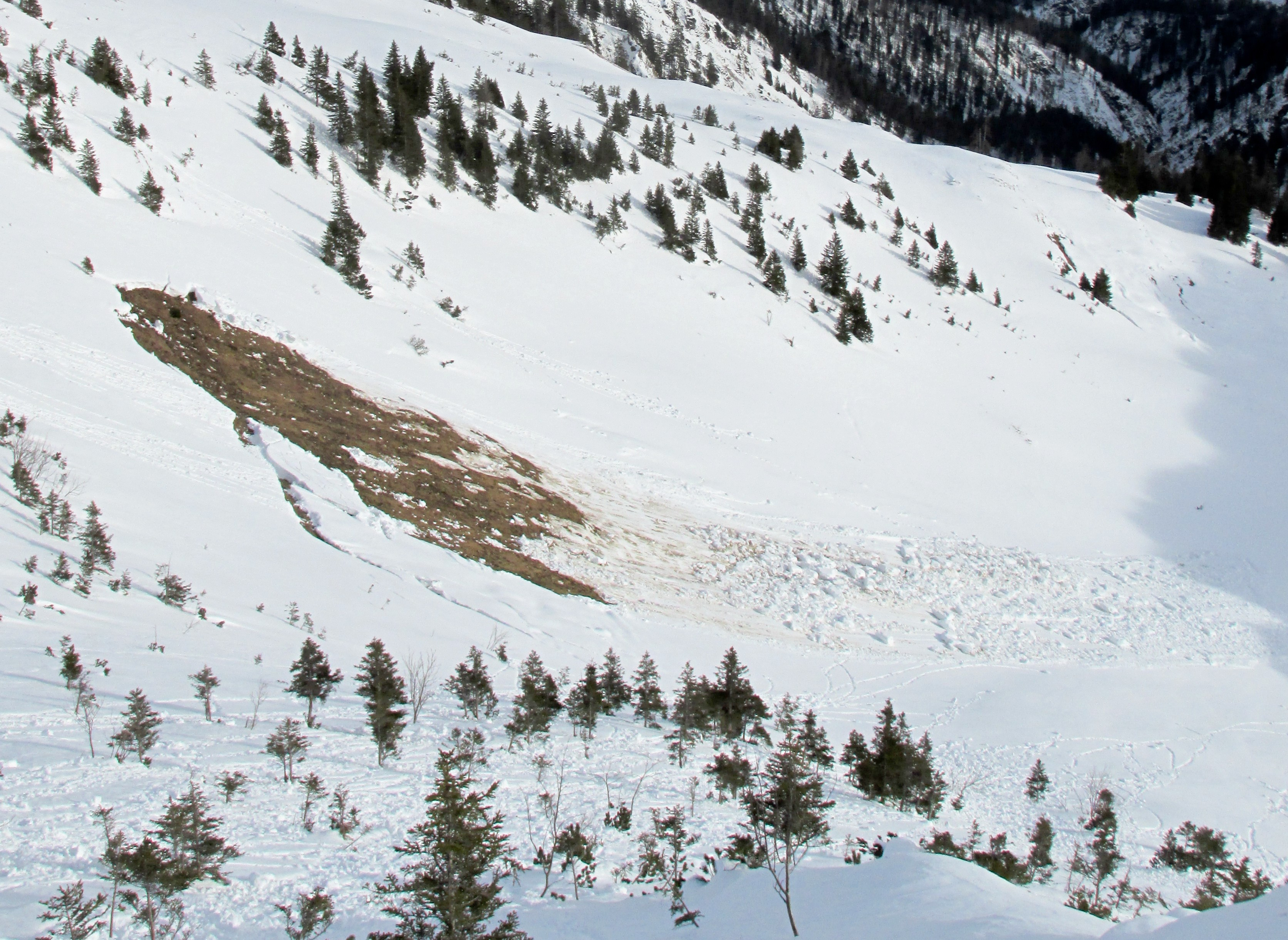 Ground avalanche at the Auerspitz. Warm föhn wind and sunny weather on this souce facing area caused the snow to become very wet